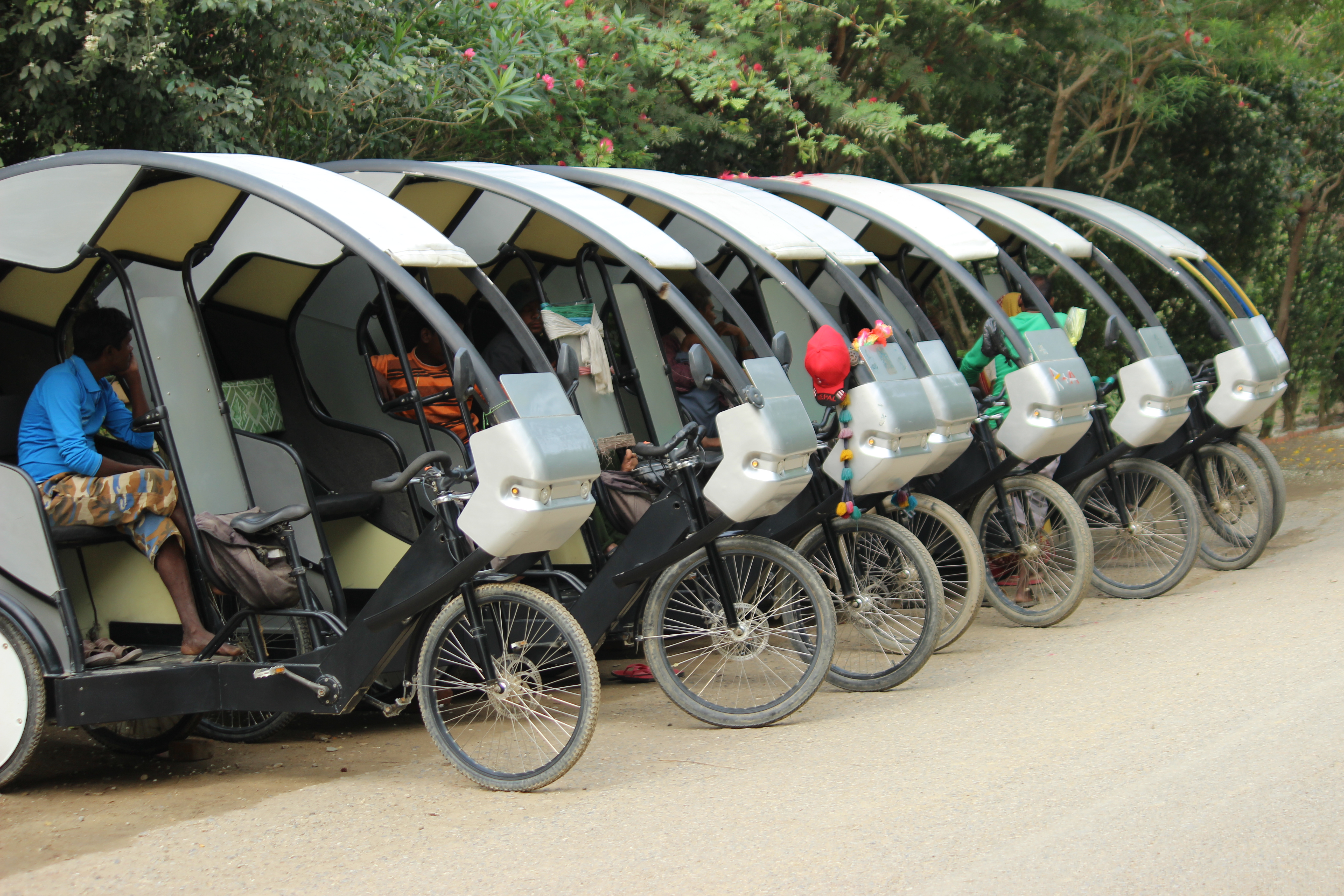 Electric Rickshaws in Lumbimi, Nepal